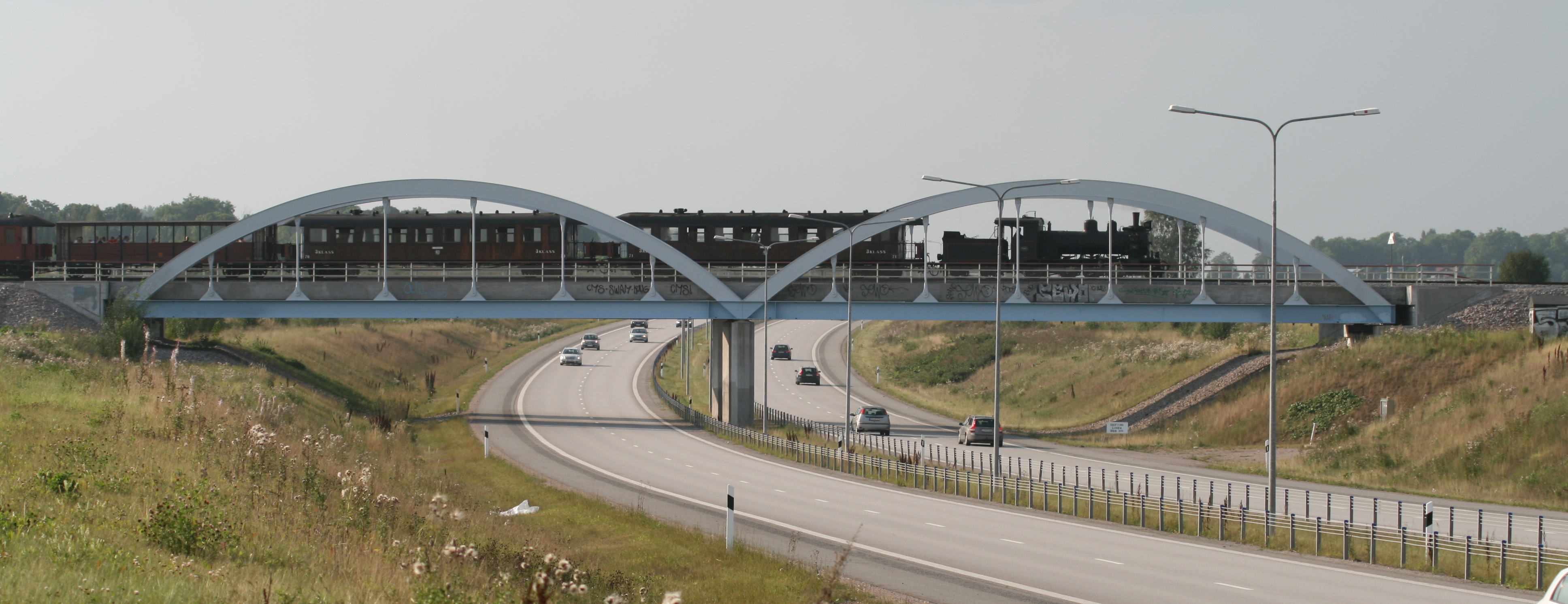 Upsala-Lenna Railroad crossing the E4 motorway outside Uppsala, Sweden.